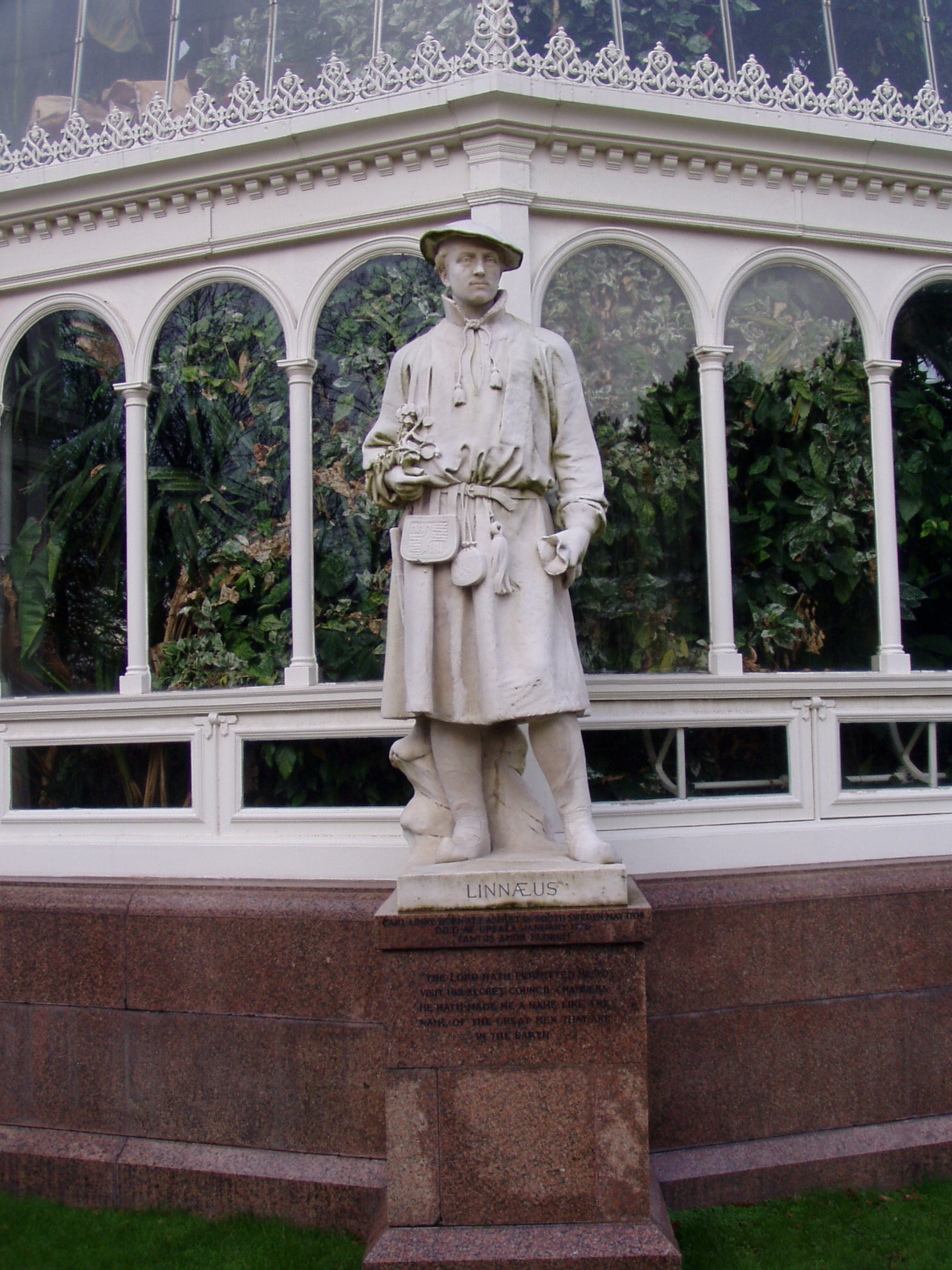 Details from the Palm house in Sefton Park, Liverpool